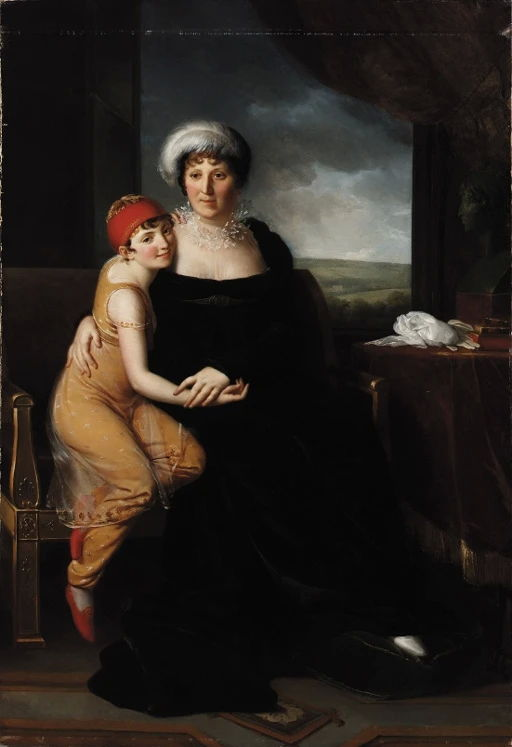 Portrait of Madame Campan (1752-1822), oil on canvas, 74 x 51 in. (188 x 129.5 cm.)